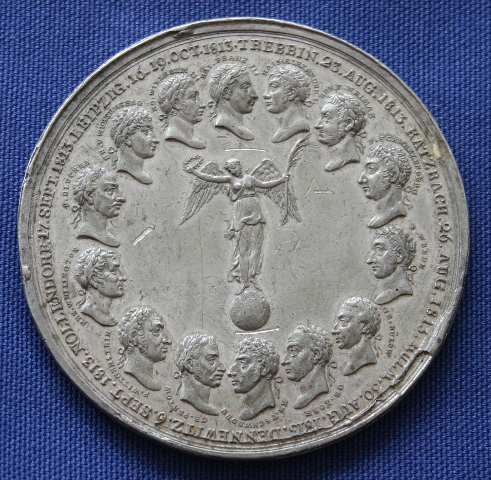 Congress of Vienna medallion, with prominent allied monarchs and generals, including "WHILINGTON" (i.e. Duke of Wellington).